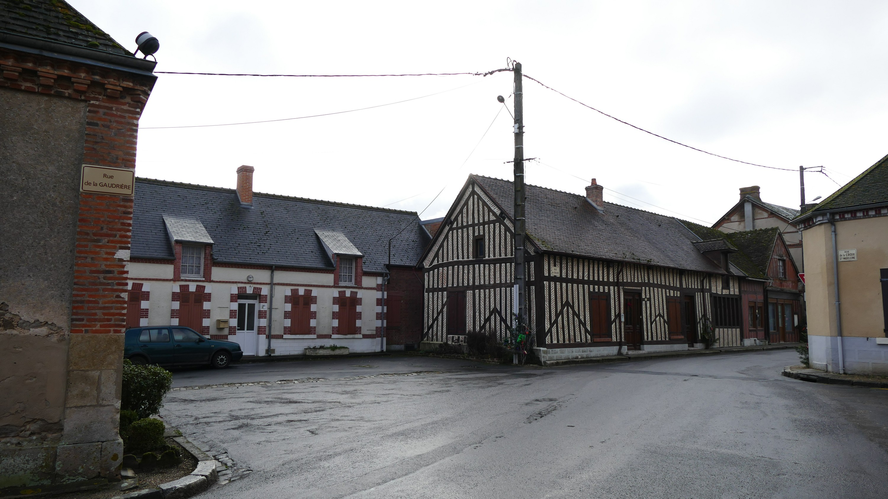 Street and houses in Vannes-sur-Cosson (Loiret, Centre-Val de Loire, France).